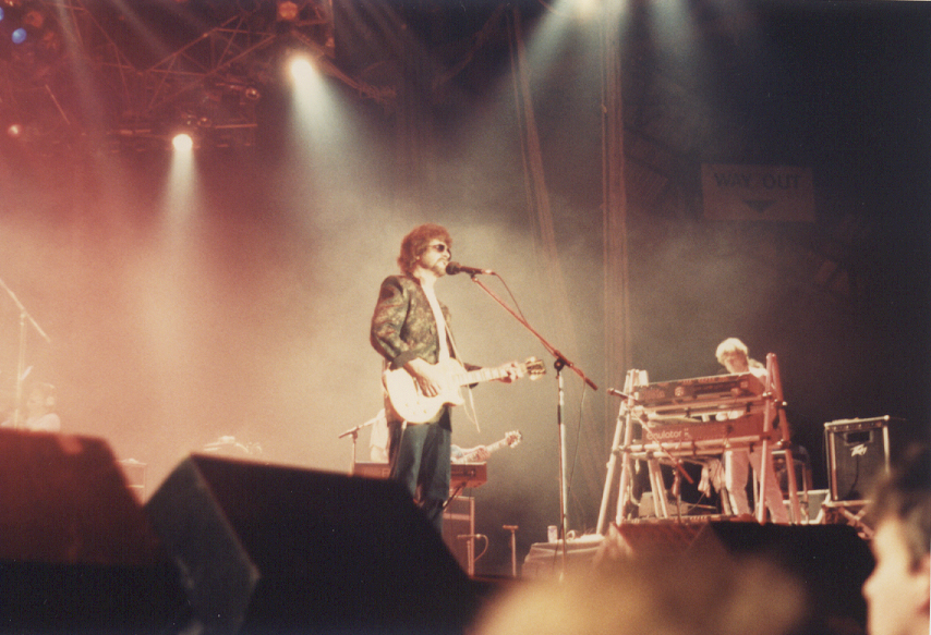 Electric Light Orchestra performing live in Birmingham.